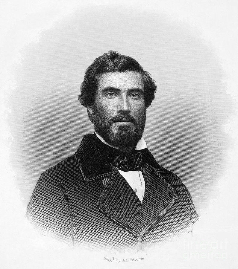 Hinton Rowan Helper (1829-1909), critic of Southern slavery.